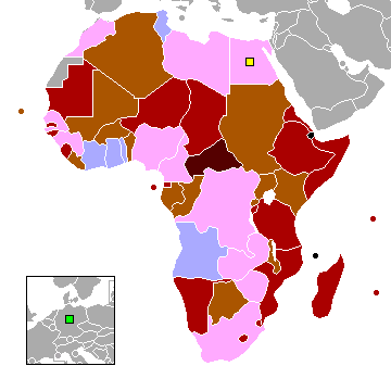 Status of countries with respect to 2006 Africa Cup of Nations and 2006 FIFA World Cup: Qualified both tournament Qualified only 2006 Africa Cup of Nations Eliminated in final round Eliminated in preliminary round Withdrew Did not enter Not an associate member of CAF Host nation of 2006 Africa Cup of Nations (Egypt) Host nation of 2006 FIFA World Cup (Germany)